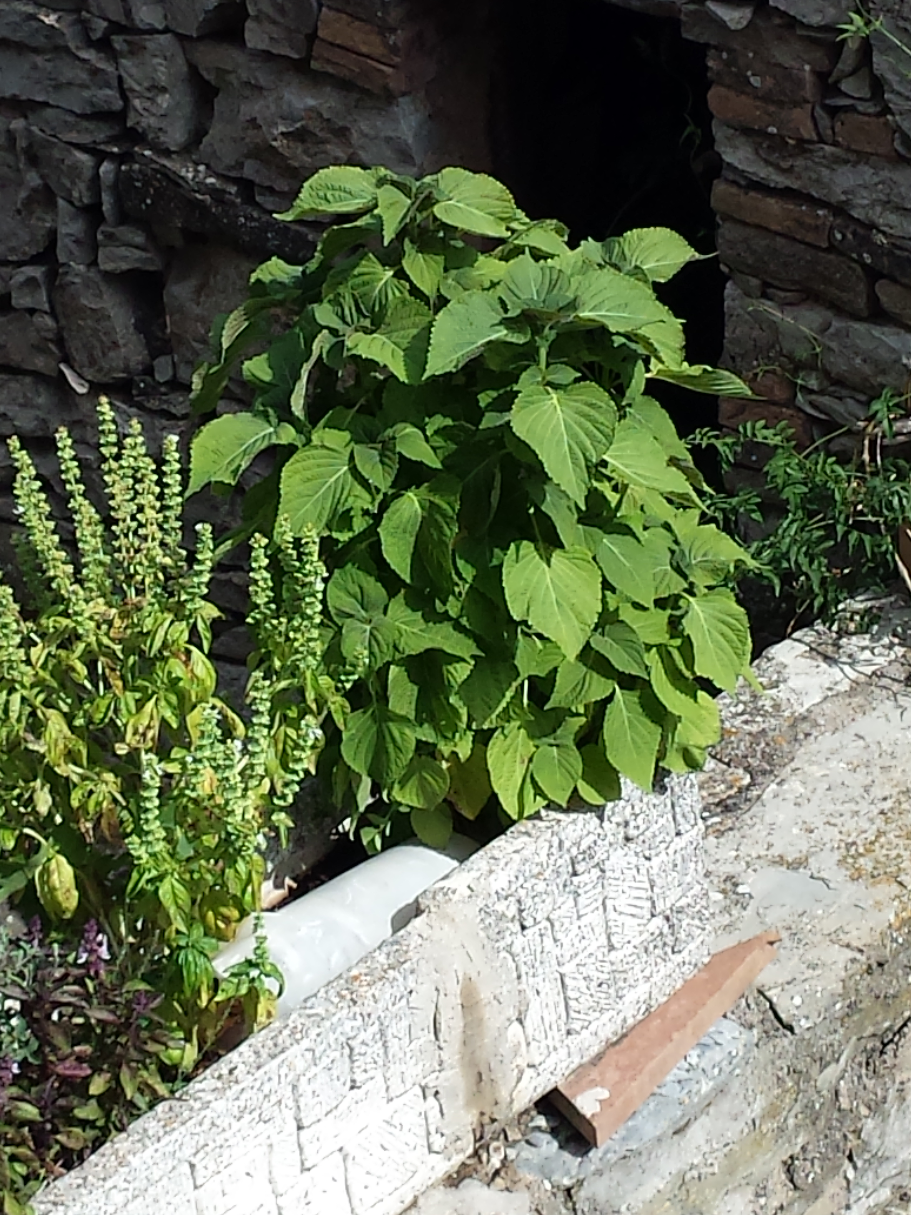 Perilla (right) and Basil (left) seeds from South Korea